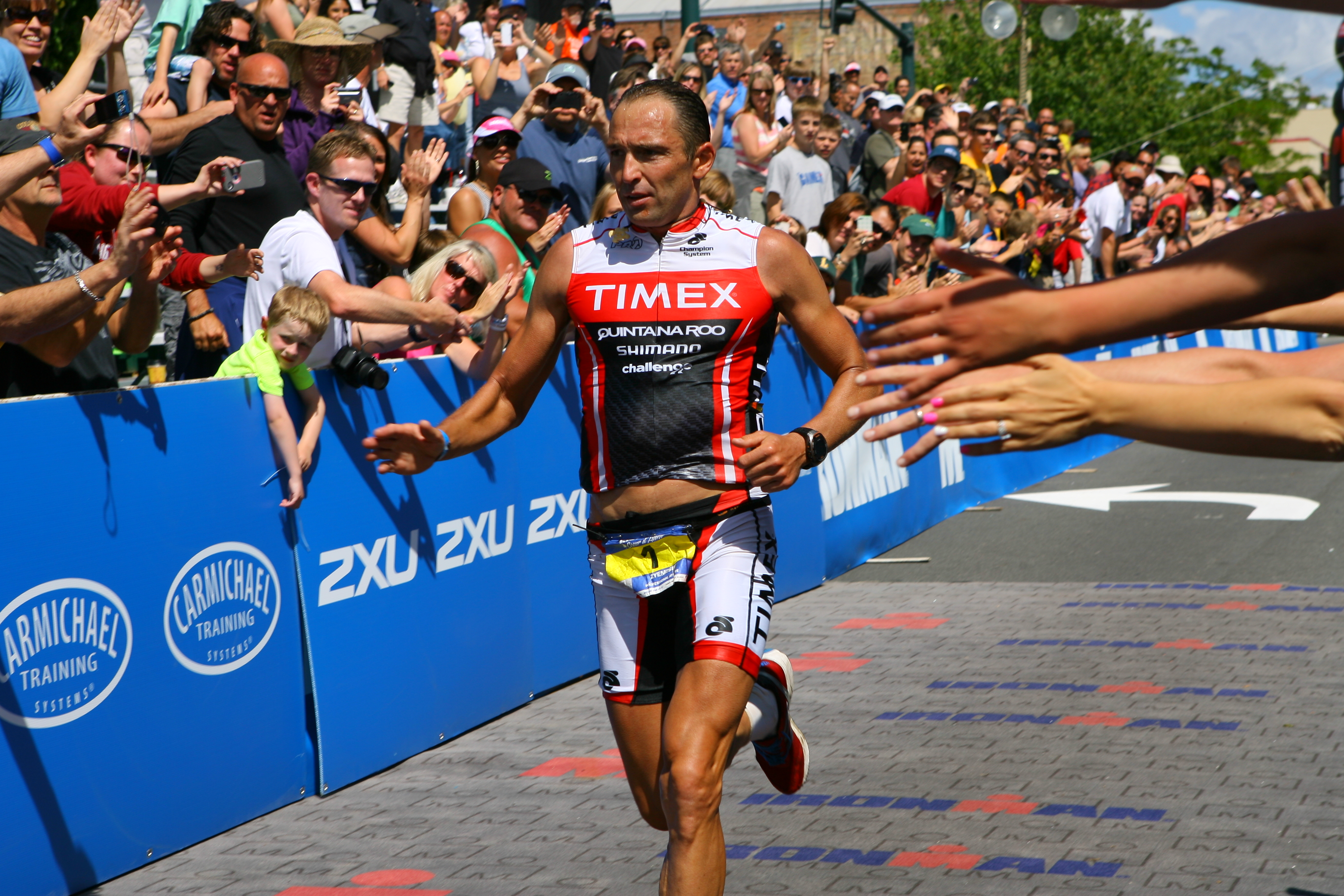 Viktor Zyemtsev of the Ukraine held off Tim O’Donnell of the United States by 9:07 to secure his third Ironman Coeur d’Alene victory and his 9th Ironman title in a time of 8:32:29